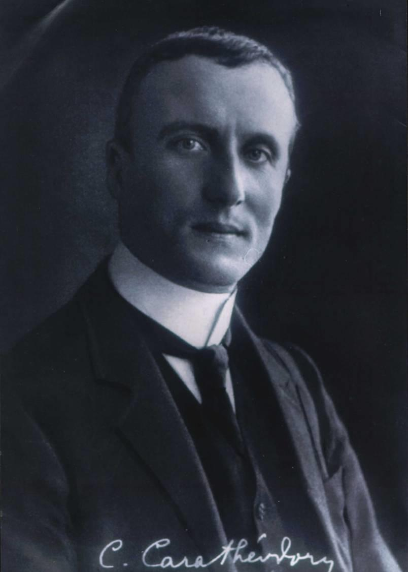 Greek mathematician Constantin Caratheodory (Κωνσταντίνος Καραθεοδωρής) (1873-1950)